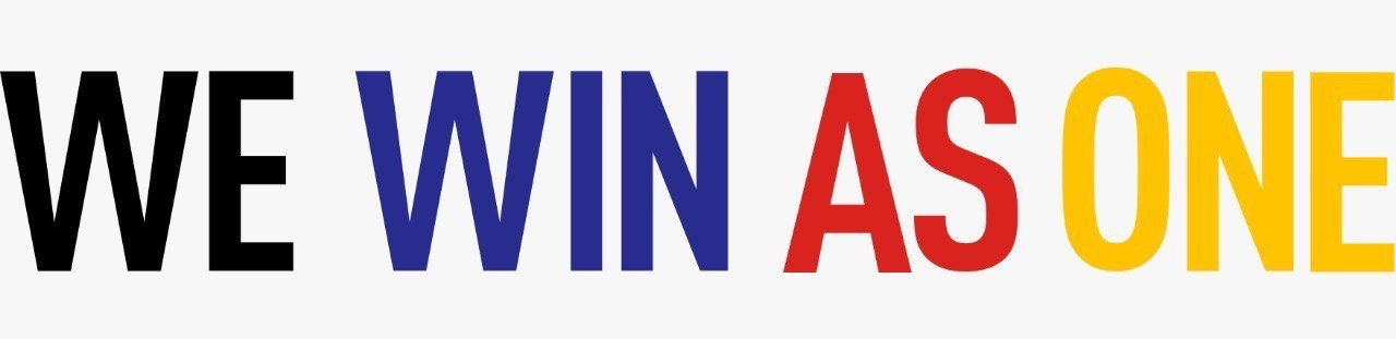 2019 Southeast Asian Games slogan